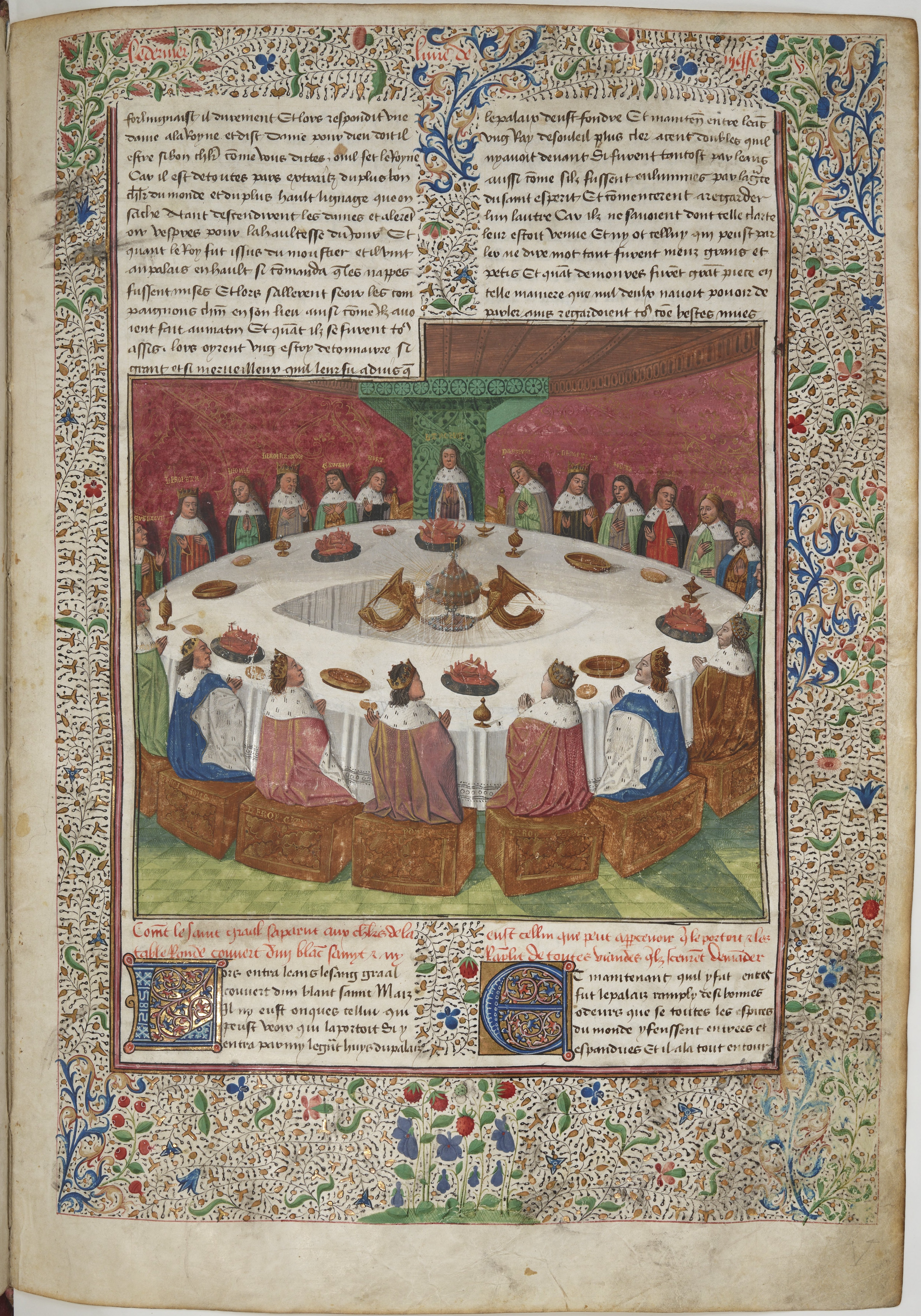 King Arthur's knights, gathered at the Round Table to celebrate Pentecost, see a vision of the Holy Grail. The Grail appears as a veiled ciborium, made of gold and decorated with jewels, held by two angels. From BNF 112, a manuscript of the prose Lancelot attributed to Walter Map (Gaultier Moap) or Michel Gantelet.